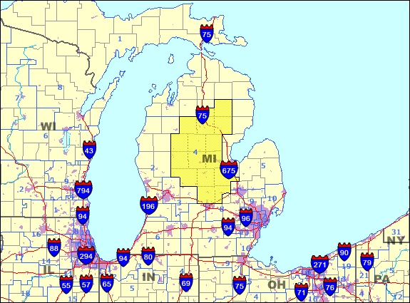 Map of Michigan's 4th congressional district for the en:106th United States Congress, illustrating boundaries prior to redistricting in 2002.